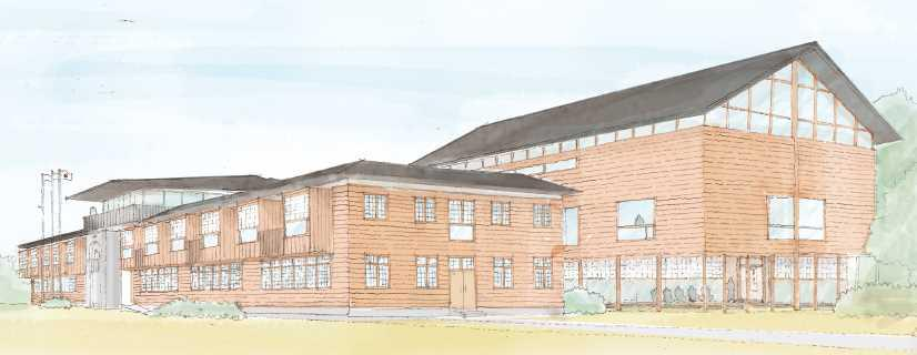 Architectural drawing of Mizuho no Kuni Memorial School by the Ministry of Land, Infrastructure, Transport and Tourism.